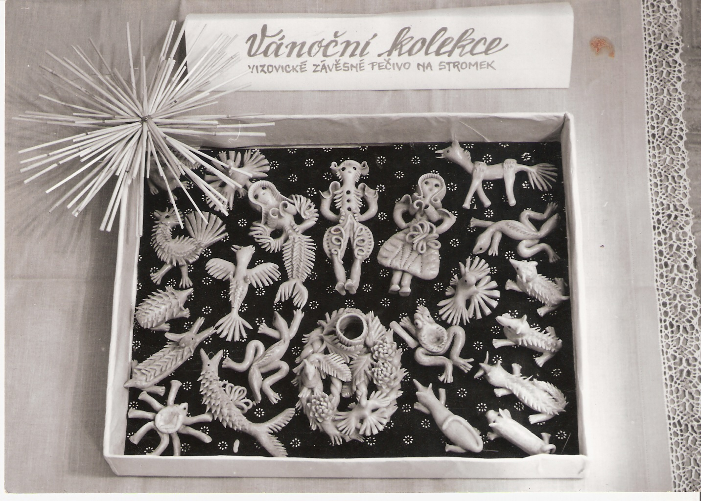 Vizovice figurative pastry